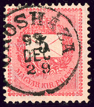 Kingdom of Hungary 5 kr stamp, issue 1888, cancelled at OROSHAZA, Eastern Hungary, in 1893.